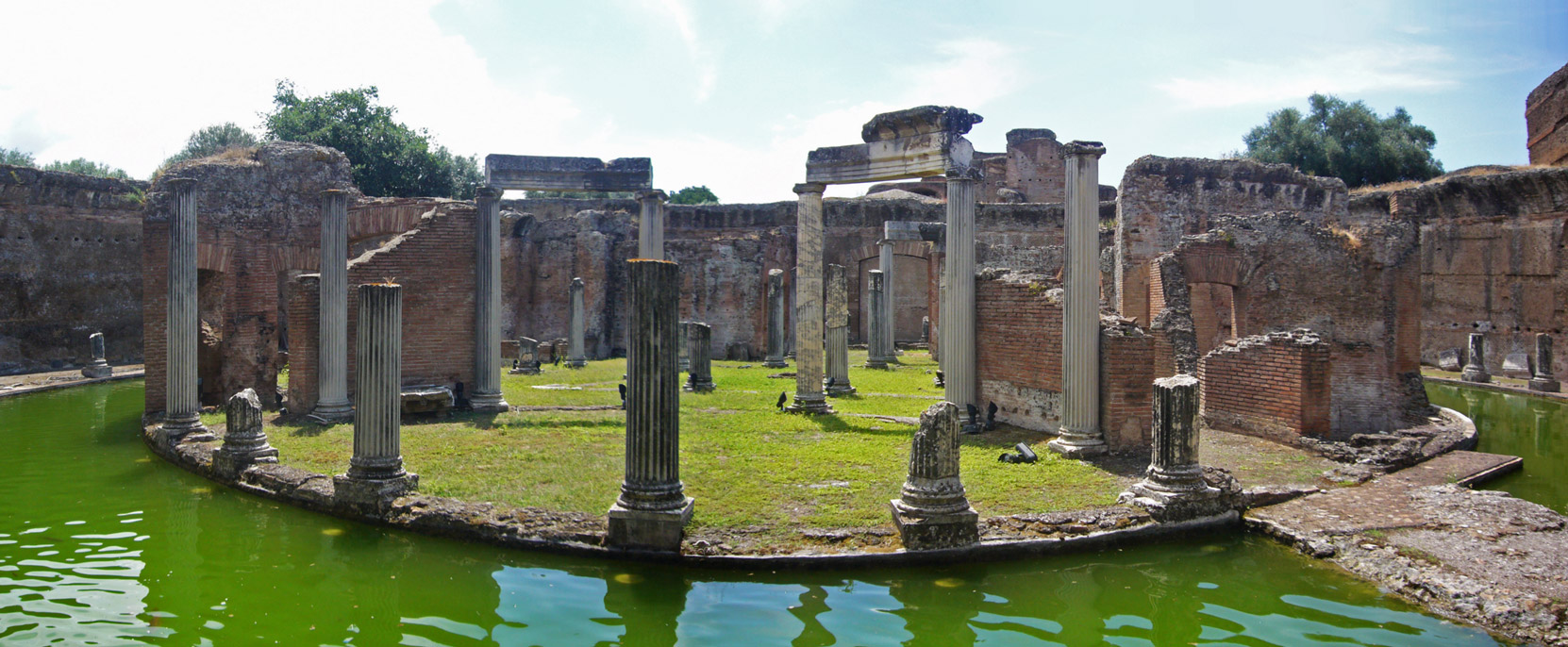 Panoramic view of the Maritime Theater at Villa Adriana.